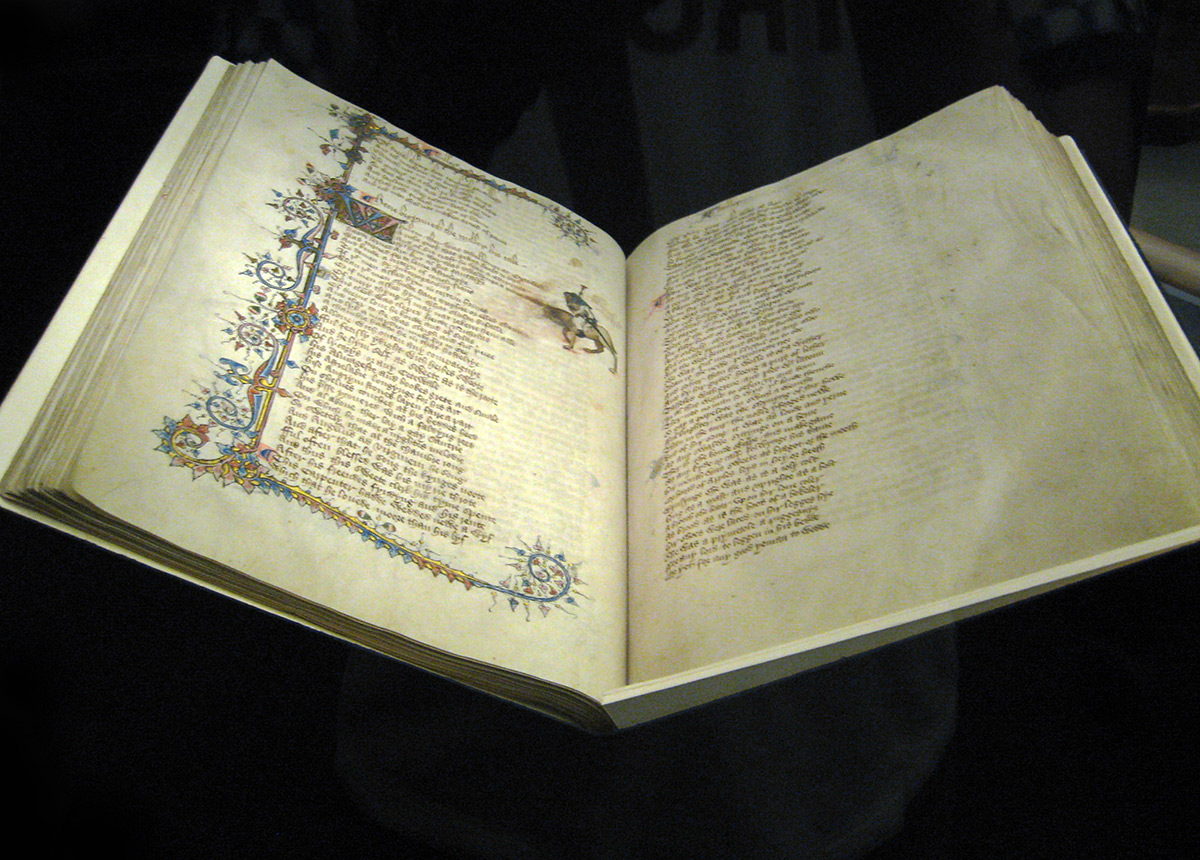 Chaucer's Canterbury Tales in the Ellesmere MS at Huntington Library, Los Angeles